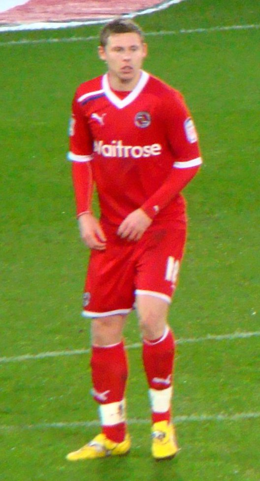 02/01/12 Cardiff V Reading, Championship, Cardiff City Stadium, Cardiff, Wales